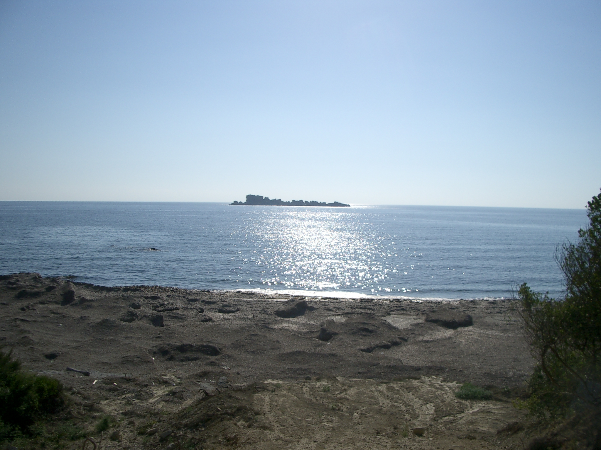 Trachia islet (Τραχειά/Τραχιά), West of Mathraki, Ionian Islands, Greece